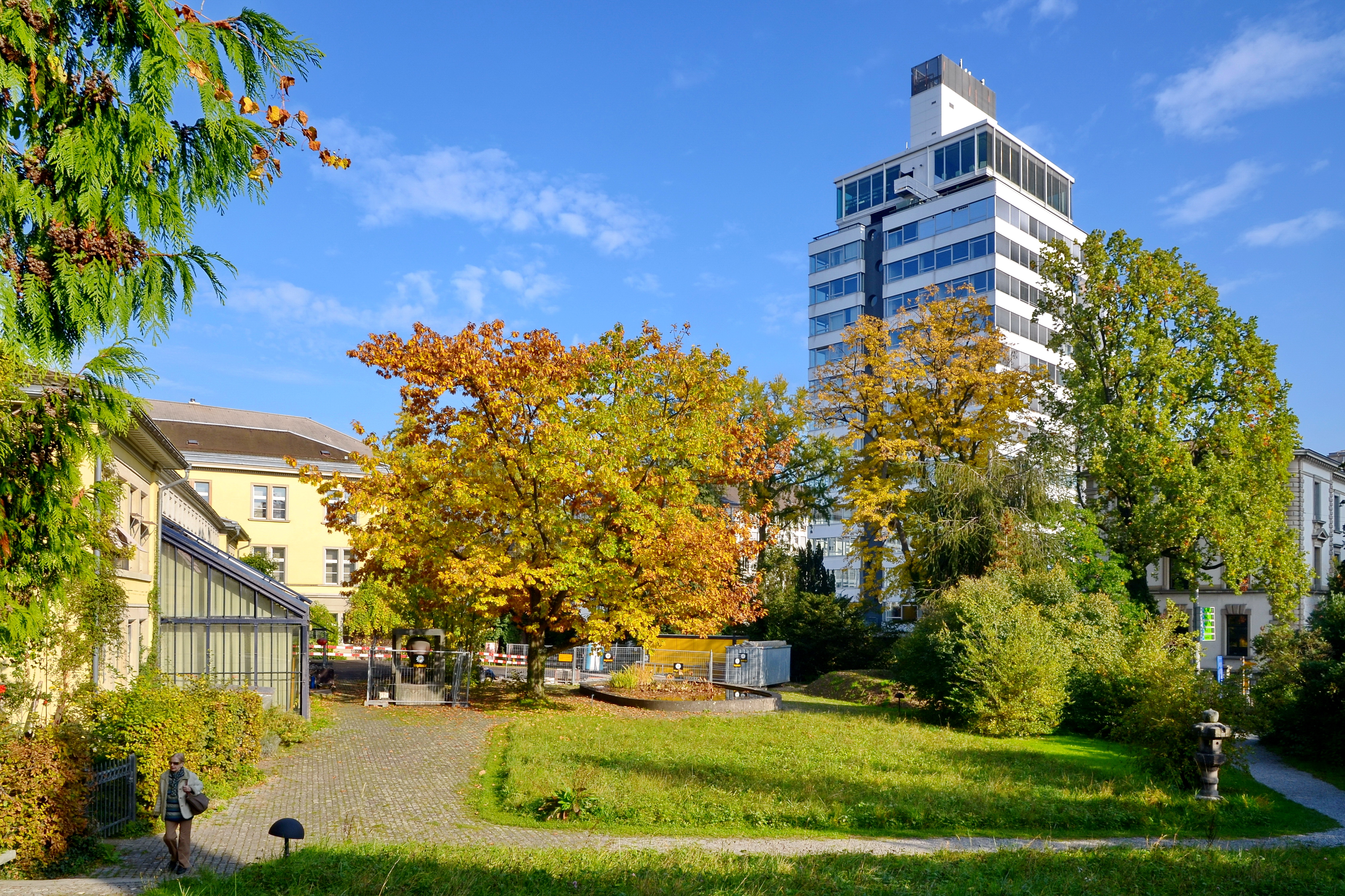 Old Botanical Garden «zur Katz» in Zürich (Switzerland)